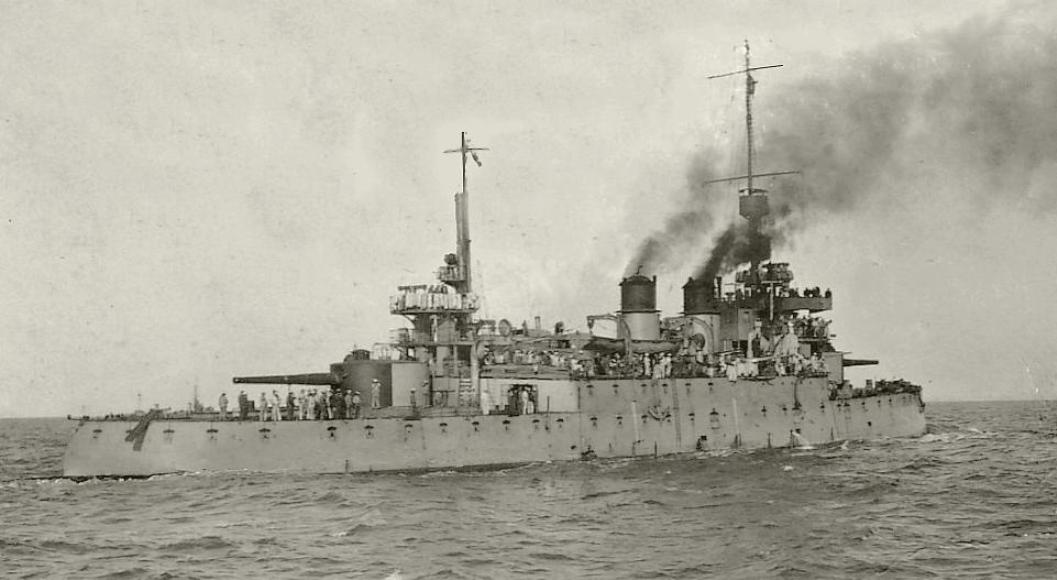 The Requin (Shark). French warship involved in the defense of the Suez Canal in 1915 against the Turks.